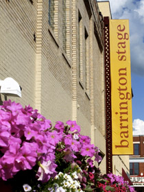 BSC theatre